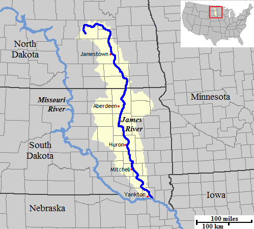 Map of the course and drainage basin of the James River in the US states of North Dakota and South Dakota.